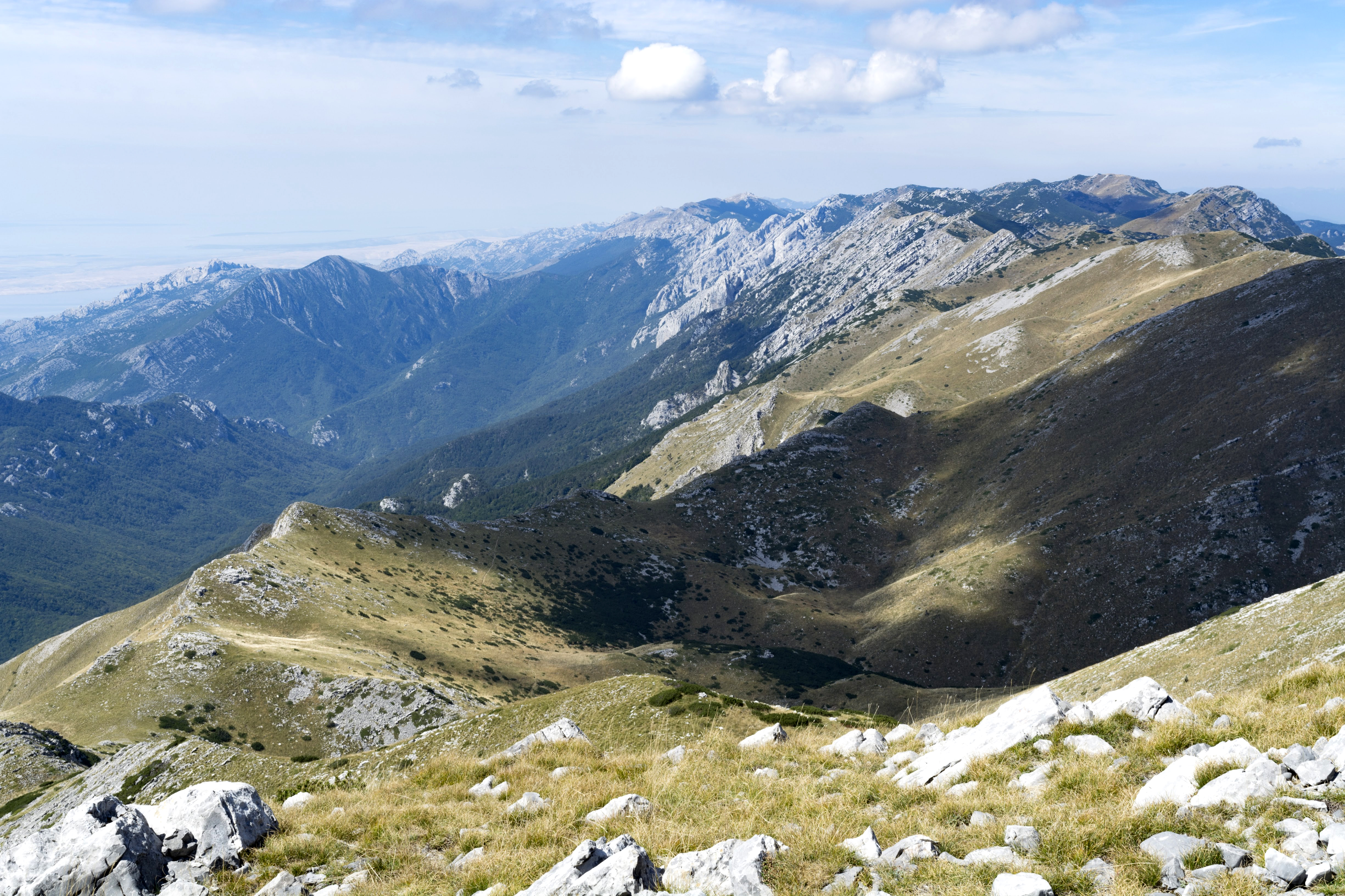 View from summit Sveto Brdo 1753m at Vaganski vrh 1757m